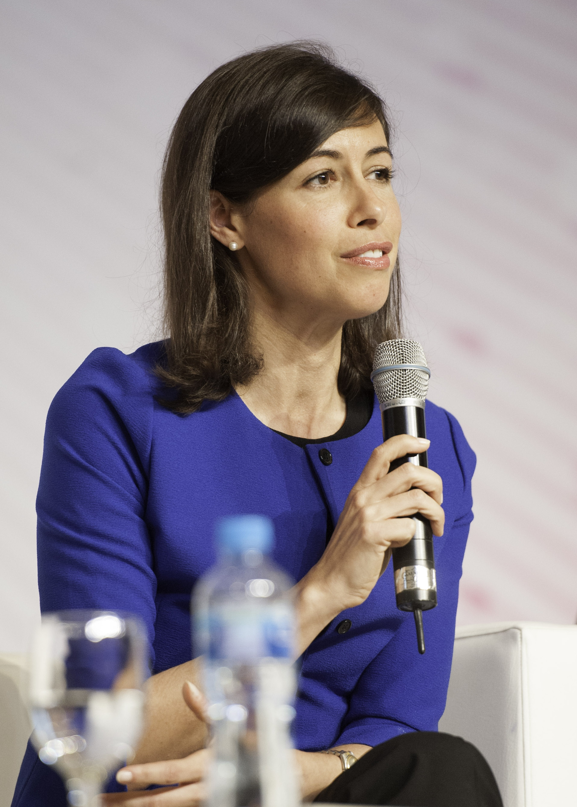 Ms Jessica Rosenworcel, Commissioner, Federal Communications Commission (FCC), United States. ©ITU/ M.Mouton